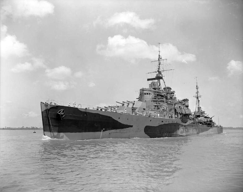 British light cruiser HMS NIGERIA underway at the US Navy Yard, South Carolina.